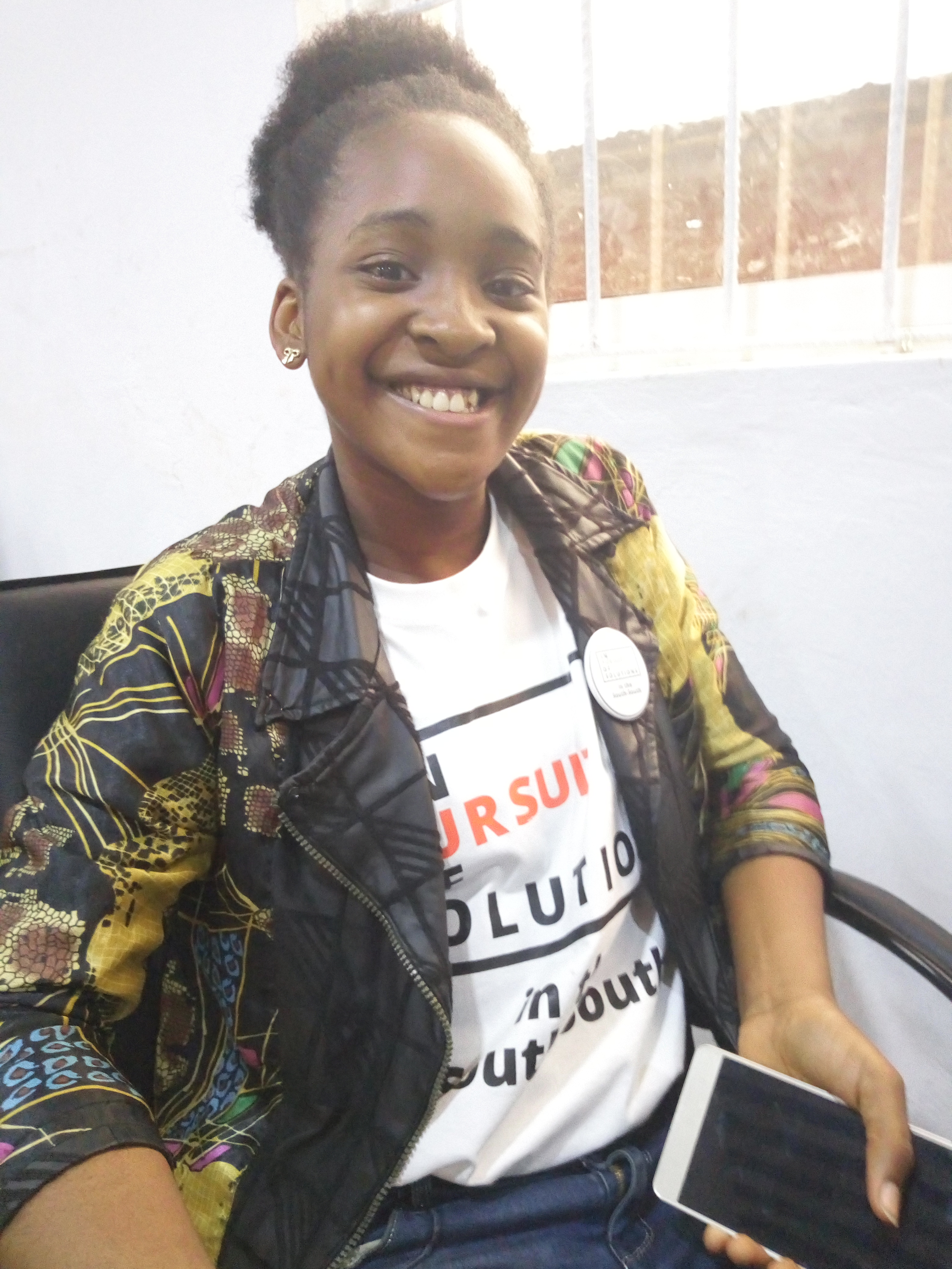 Young Amarachi smiling at the launching of Edo Innovation Hub, Benin City, Nigeria